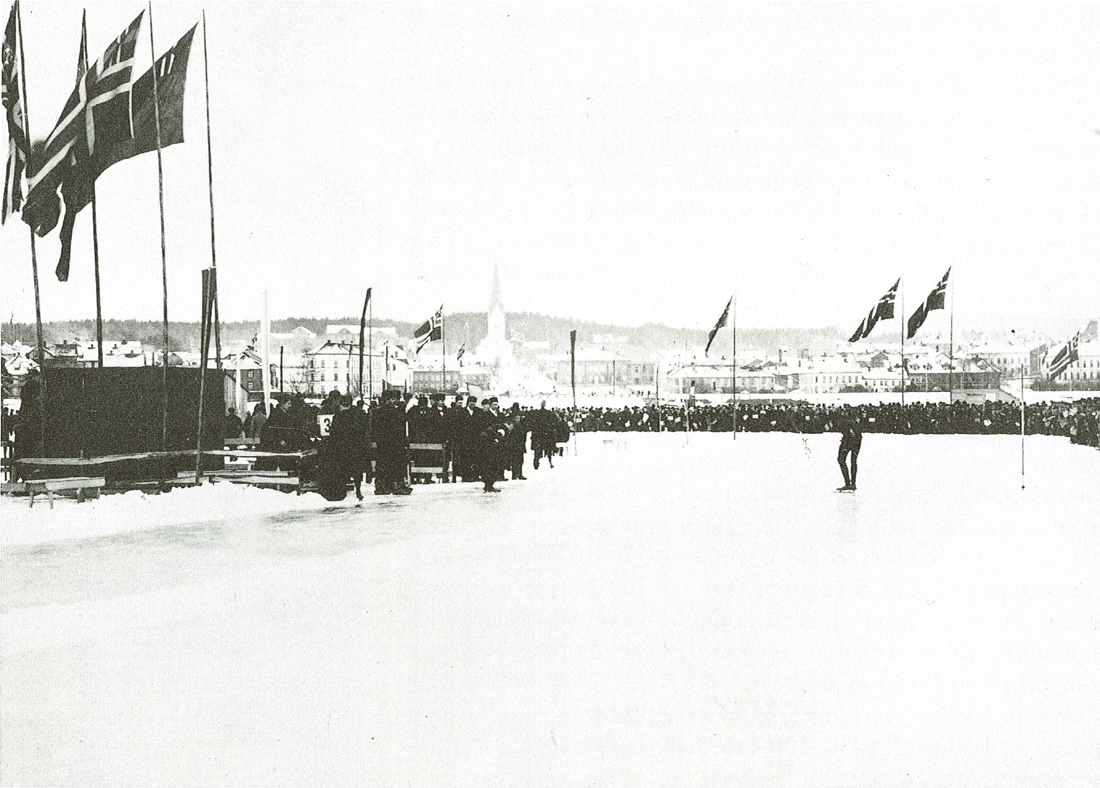 European speed skating championship at Hamar, Norway, 1894.